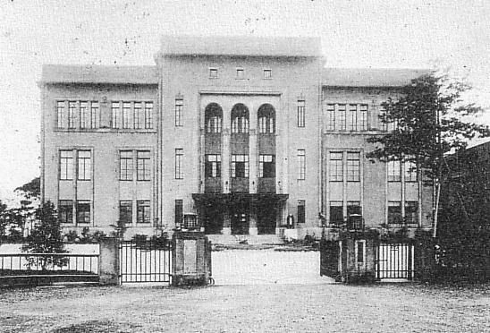 Japan Imperial Academy(present-day "Japan Academy")